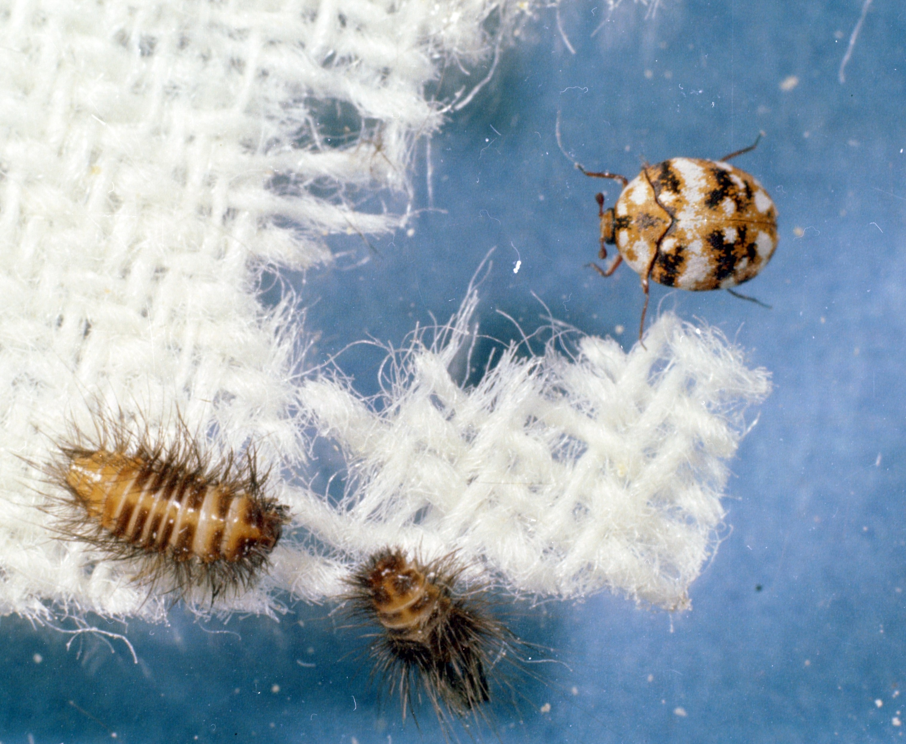 Anthrenus flavipes larvae and adult on wool, USA